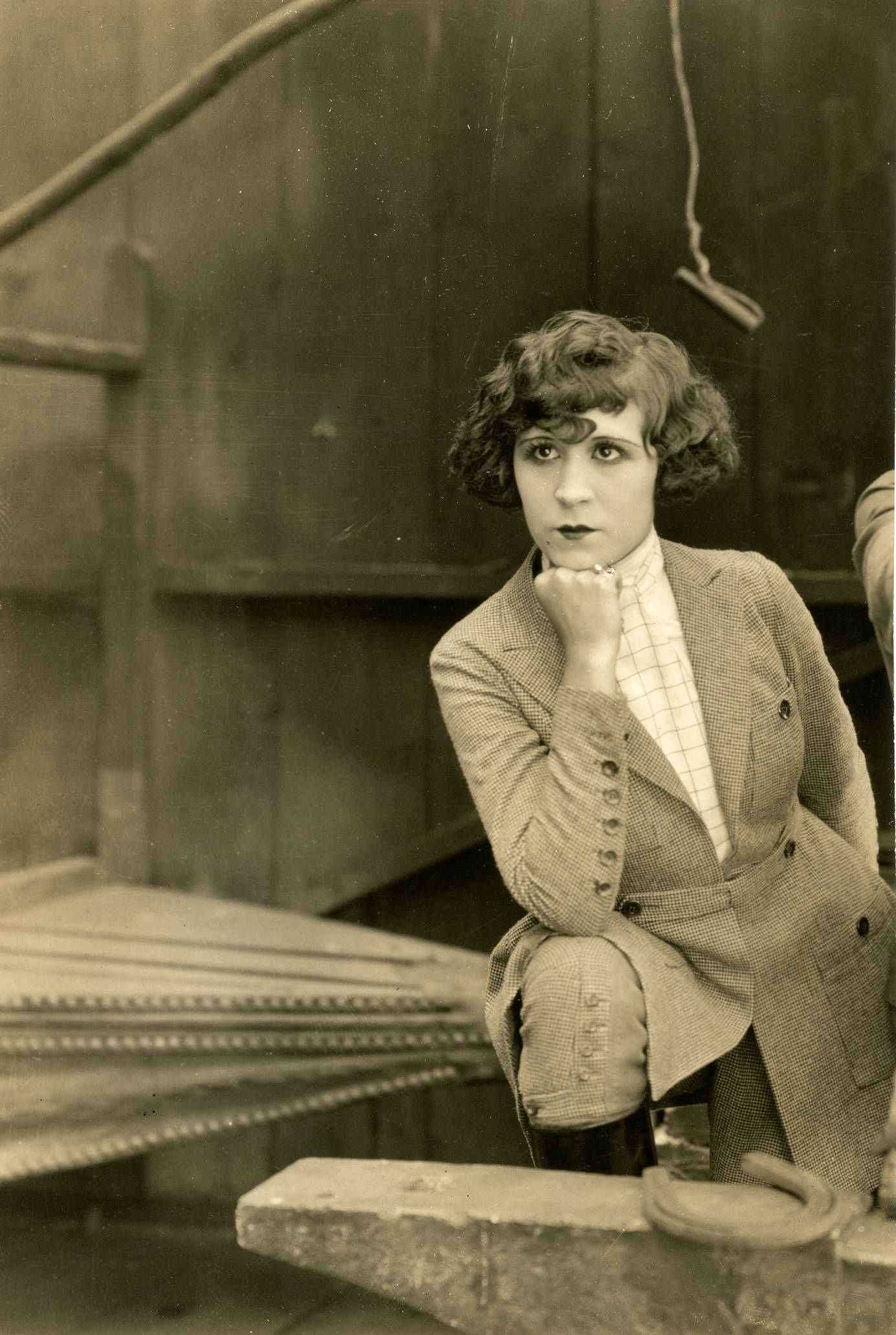 Silent film actress Virginia Fox, from the film The Blacksmith (1922). Subjects: actresses